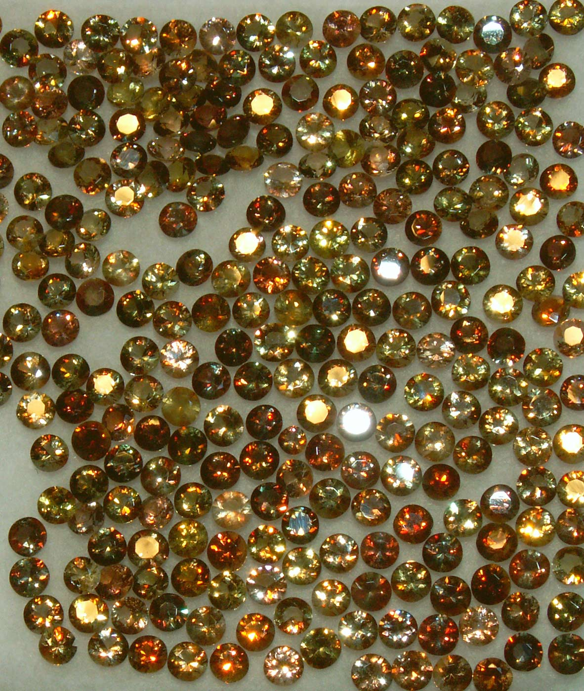 Andalusite, gemstones collection in faceted cut